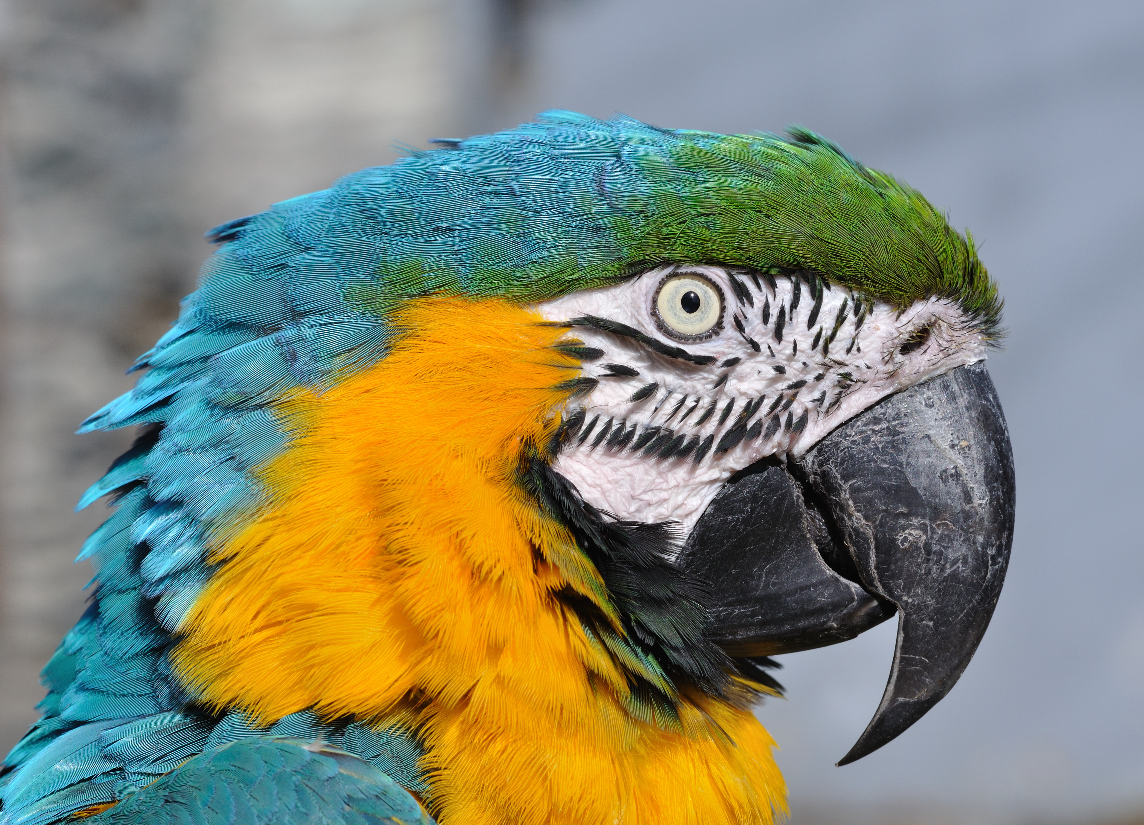 Portrait of a Blue-and-yellow Macaw (Ara ararauna) in the Vogelburg (bird park) Hochtaunus, Weilrod, Germany.